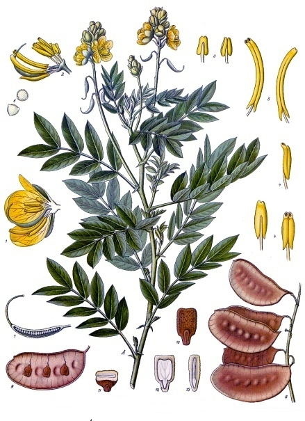 Senna alexandrina (syn.: Cassia acutifolia and Cassia angustifolia)